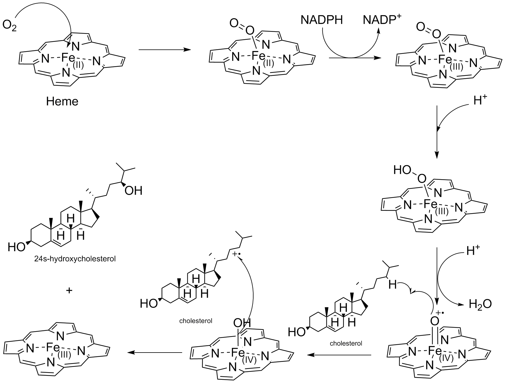 Heme-based hydroxylation mechanism of cholesterol-24 hydroxylase.